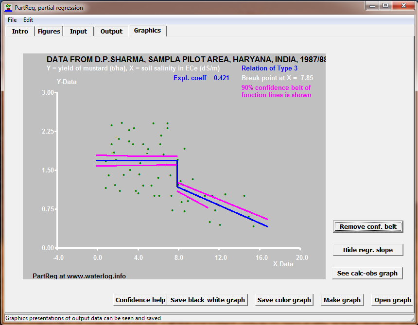 Yield of mustard in relation to soil salinity, segmented regression using partial or "no-effect" regression